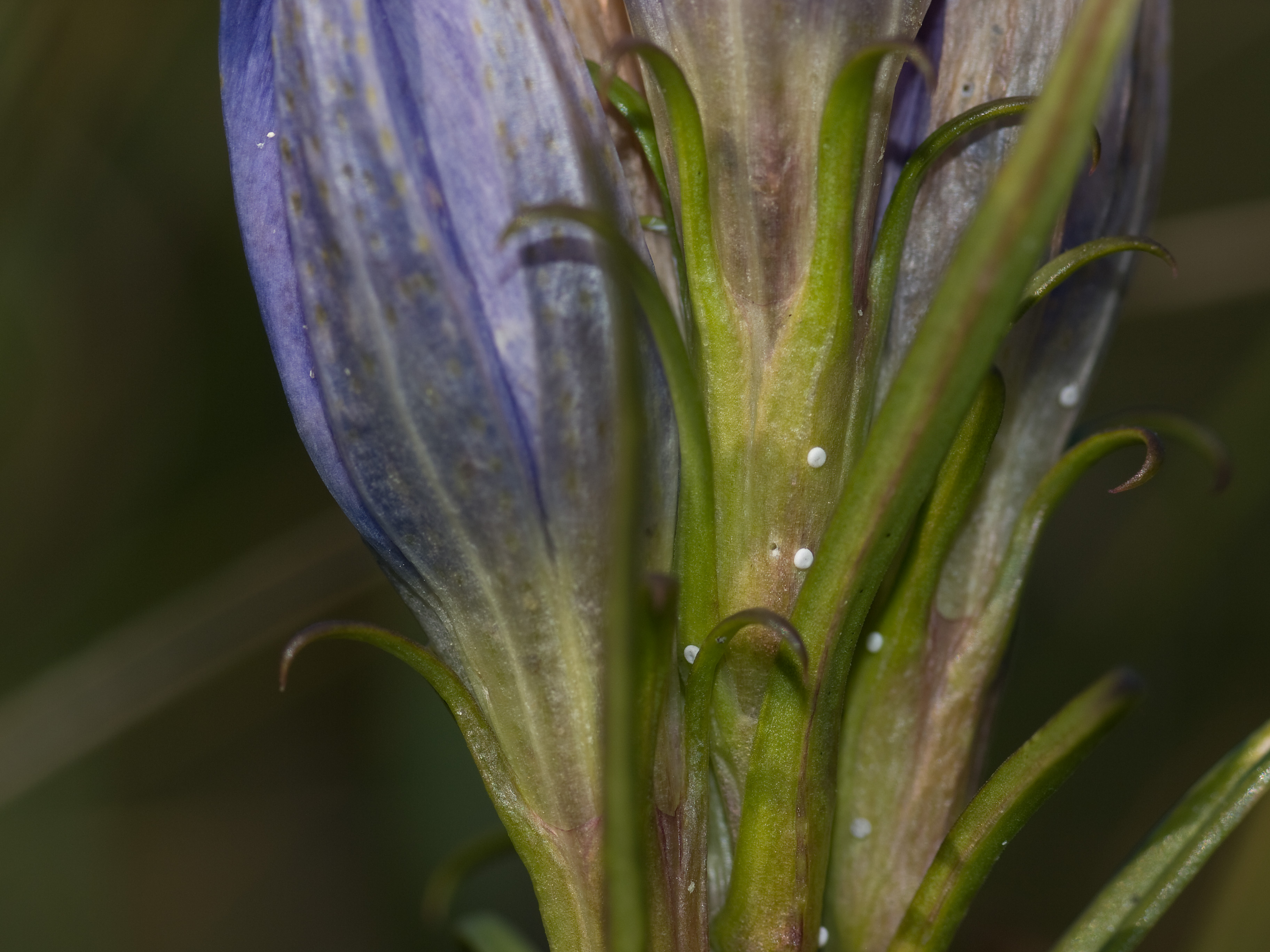 Eier vom Lungenenzian-Ameisenbläuling, Phengaris alcon, syn. Maculinea alcon an Lungenenzian, Gentiana pneumonanthe, aufgenommen am Kochelsee; Eggs from Alcon Blue, Phengaris alcon, syn. Maculinea alcon, on the Marsh Gentian, Gentiana pneumonanthe, picture taken at Kochelsee/Bavaria